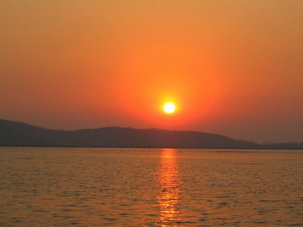 Sunset at Taihu, Wuxi